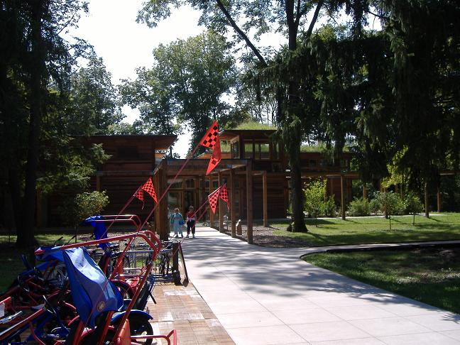 The new visitor center in Bernheim Arboretum and Research Forest in Clermont, Kentucky.